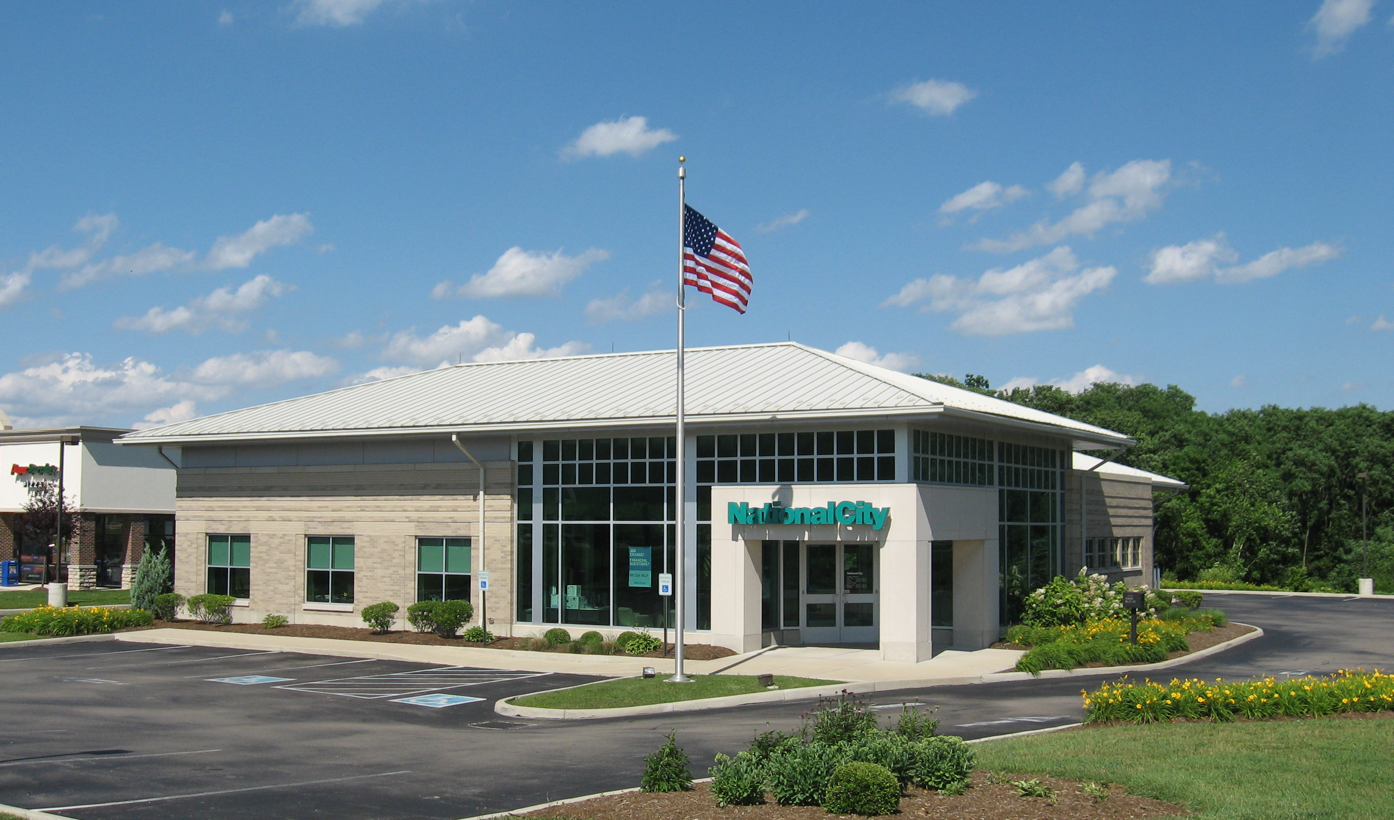 National City Bank location (Springboro, Ohio, USA)